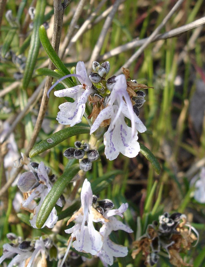 Rosmarinus officinalis (fleurs). Photo prise à Ile-sur-Têt (France)